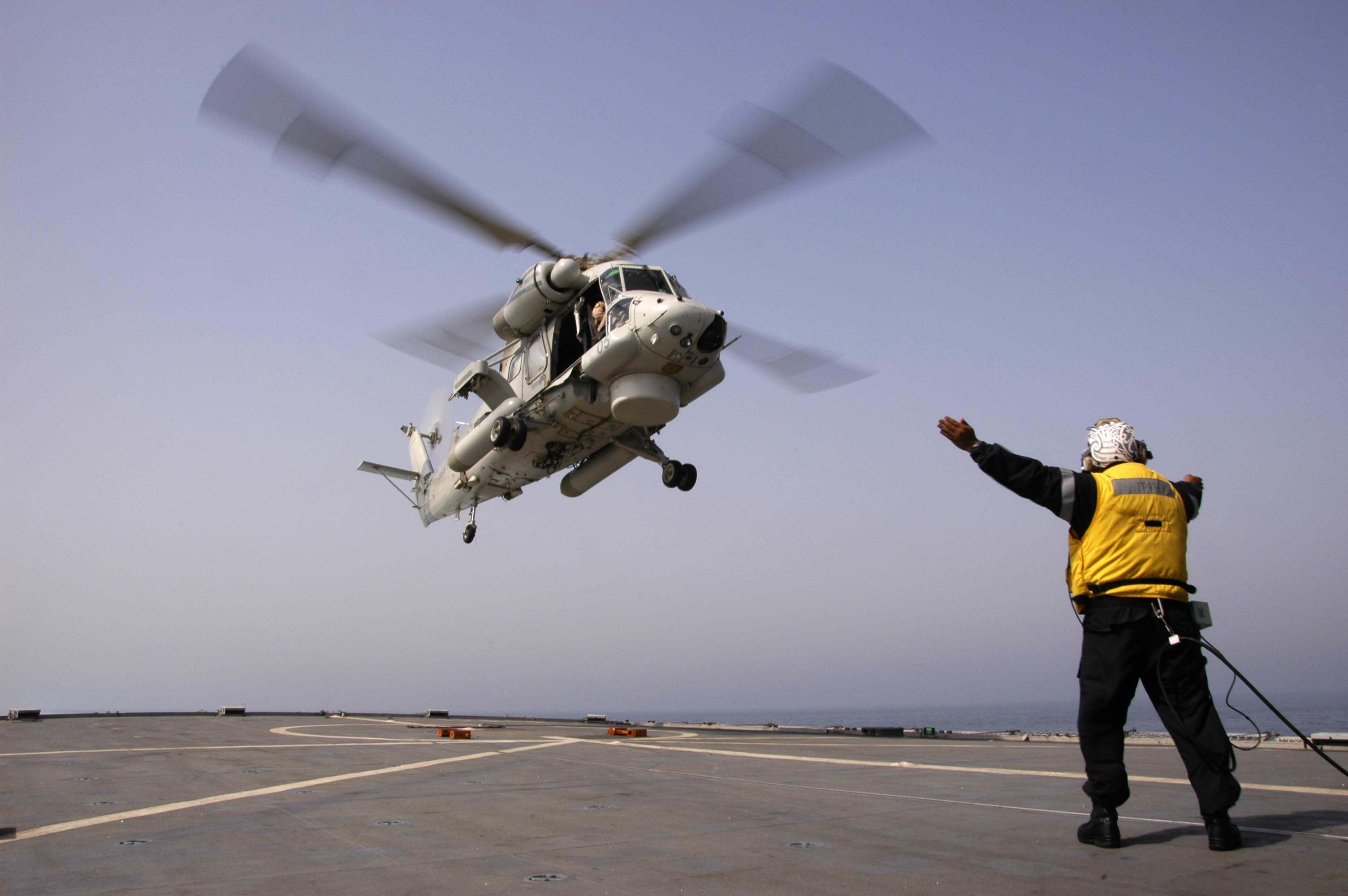 080527-N-8539M-929 PERSIAN GULF (May 27, 2008) An SH-2G Super Sea Sprite takes off from the flight deck of the New Zealand Anzac-class ship HMNZS Te-Mana (F 111) supporting Operation Stakenet, a Combined Task Force 152 operation focused on ensuring a lawful maritime order in the Persian Gulf and involved units from Bahrain, New Zealand, U.K., the U.S. and other regional countries.